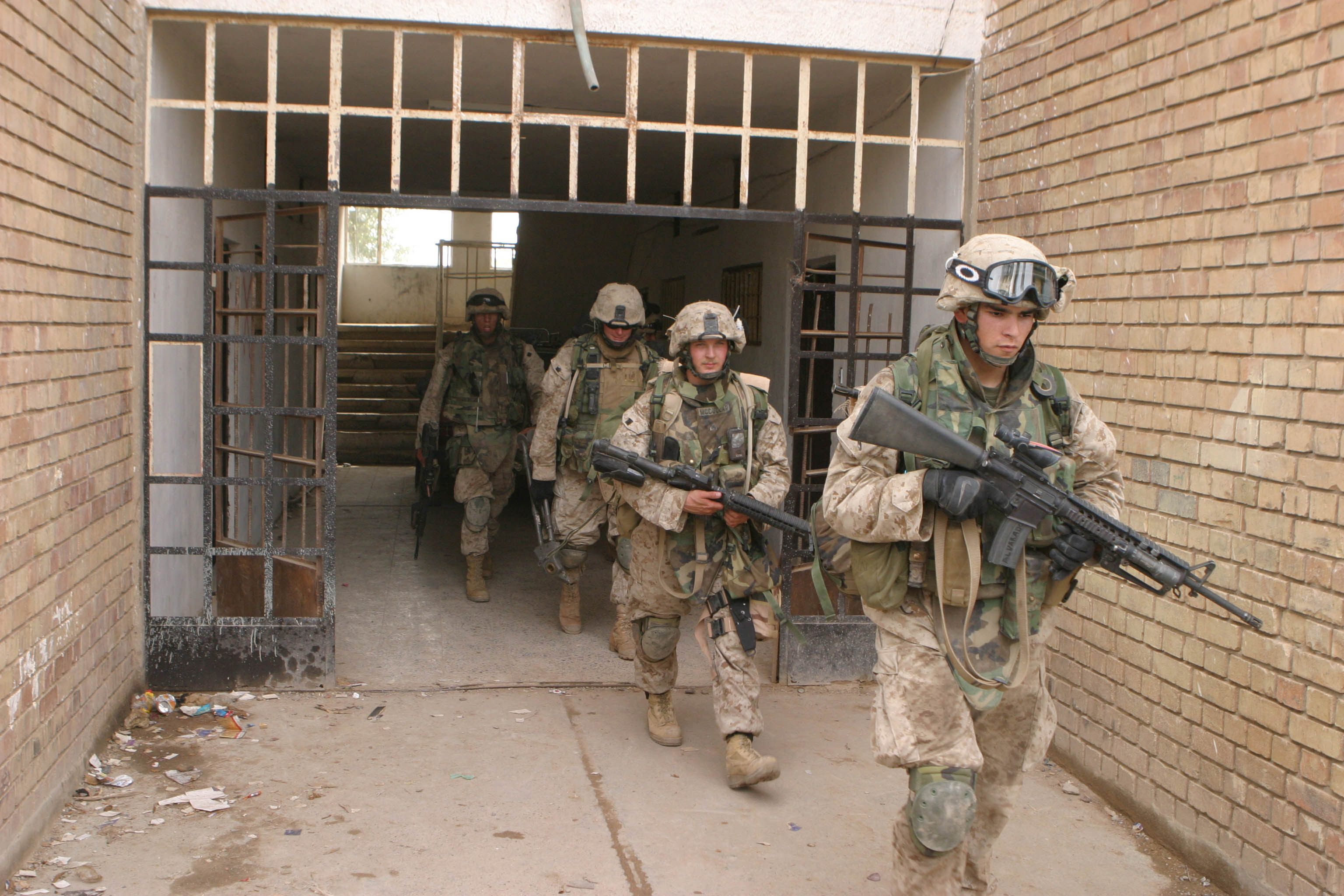 U.S. Marines seize apartments at the edge of Fallujah, Iraq, in the first hours of Operation al Fajr (New Dawn) on Nov. 8, 2004. The Marines are assigned to K Company, 3rd Battalion, 5th Marine Regiment, 1st Marine Division that is engaged in security and stabilization operations in the Al Anbar Province of Iraq.